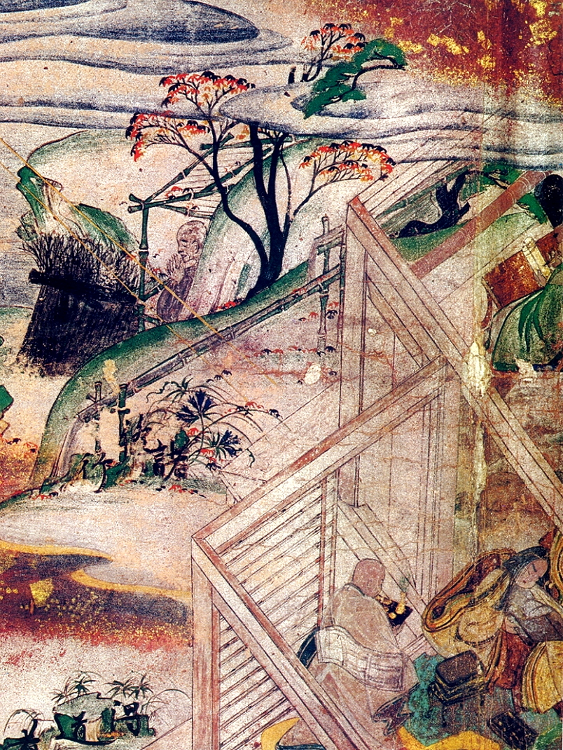 Prolugue of Lotus Sutra, Opening Part Illustration, donated by HEIKE clan in ACE1164 to Itsukushima Shrine, Hirosima Japan(preserved here until now)